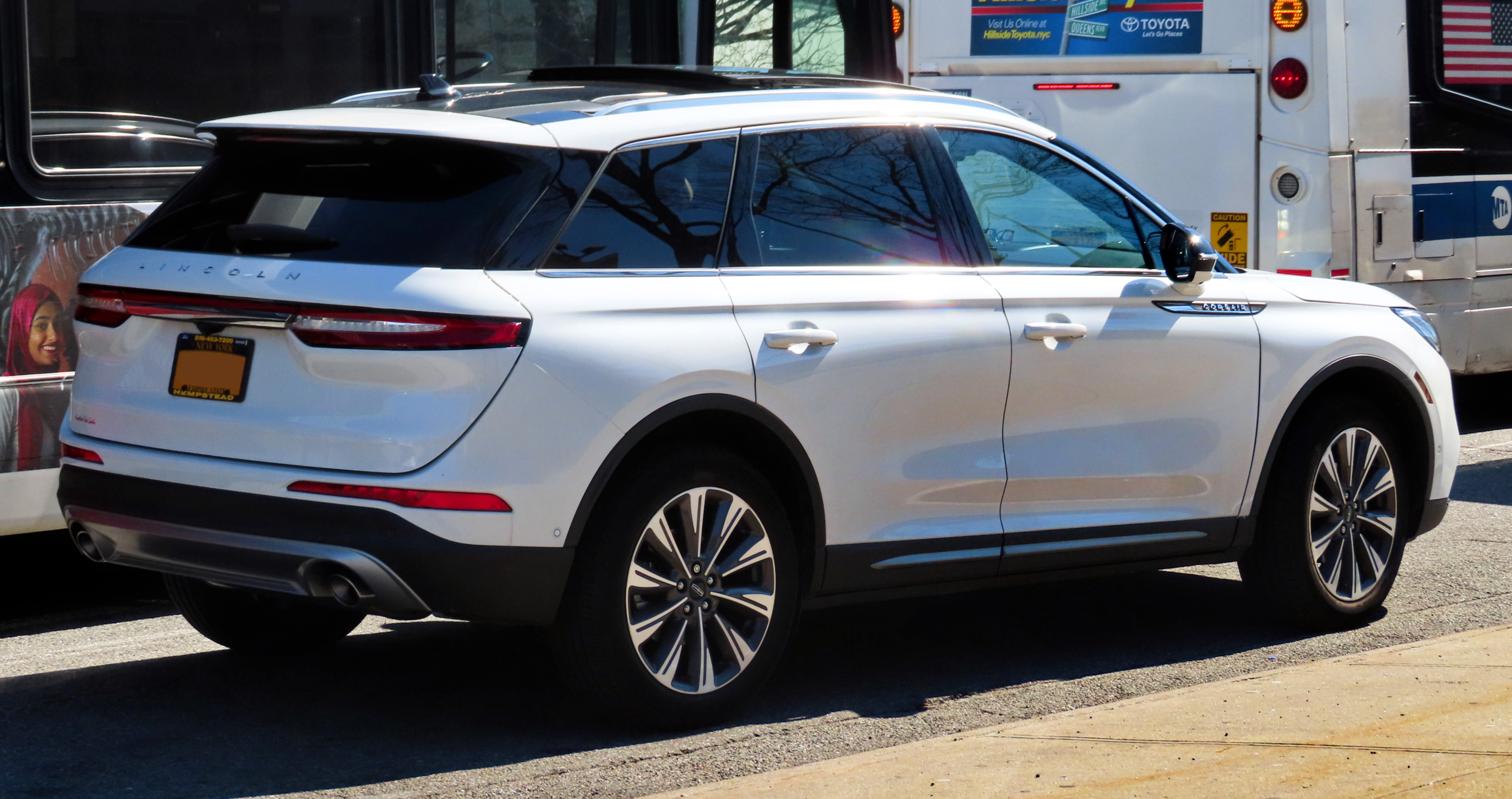 A 2020 Lincoln Corsair photographed in Fresh Meadows, Queens, New York, USA